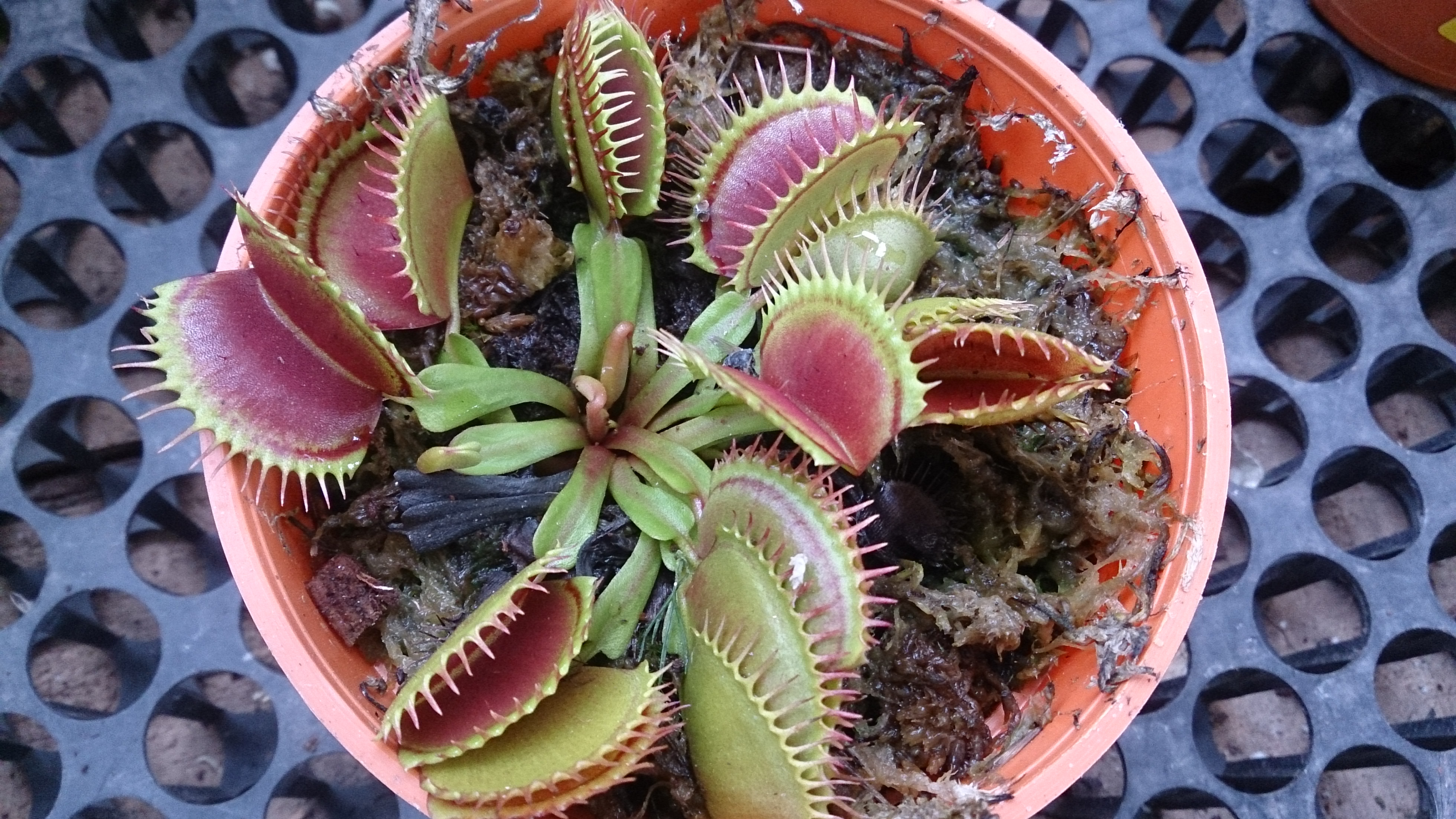 Dionaea muscipula. Common name: Venus Fly Trap.